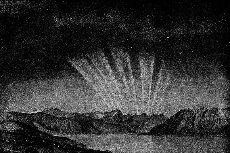 While the head of comet C/1743 X1 (Klinkenberg) was still below the horizon, multiple bright tails of the comet were visible in the predawn sky on March 8 and 9, 1744 . This sungrazing comet peaked in brightness at the end of February 1744, when it was visible in broad daylight close to the sun.